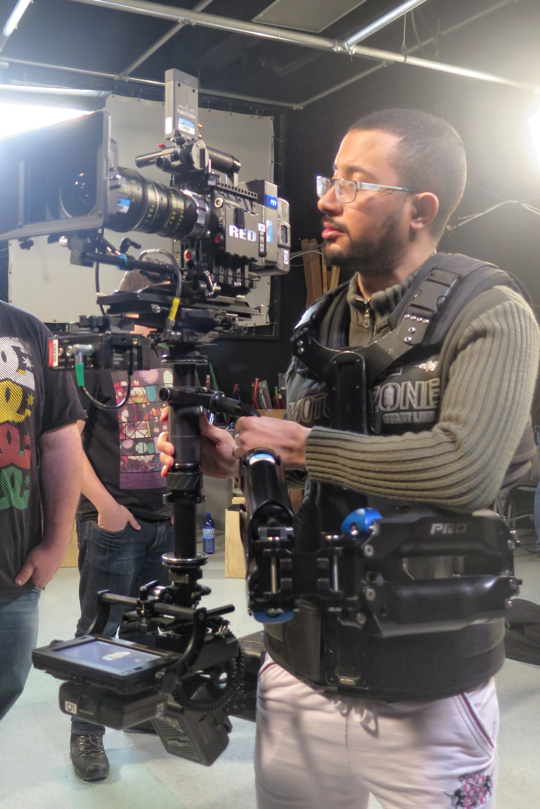 Hicham Bennir Shooting with Steadicam in Studio in Montreal, Canada